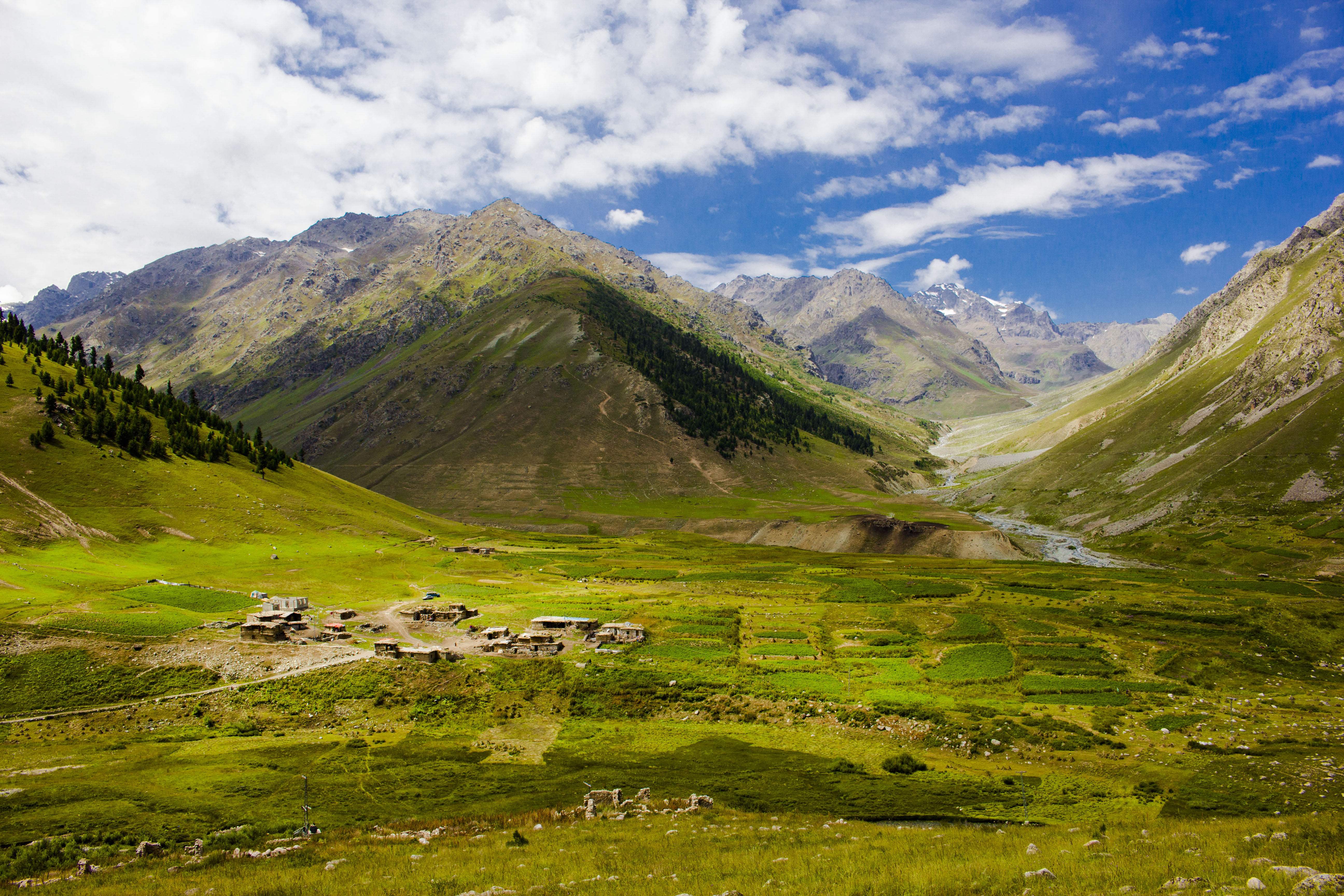 Chilam Chowki District Astore Gilgit Baltistan Pakistan, captured from road towards deosai